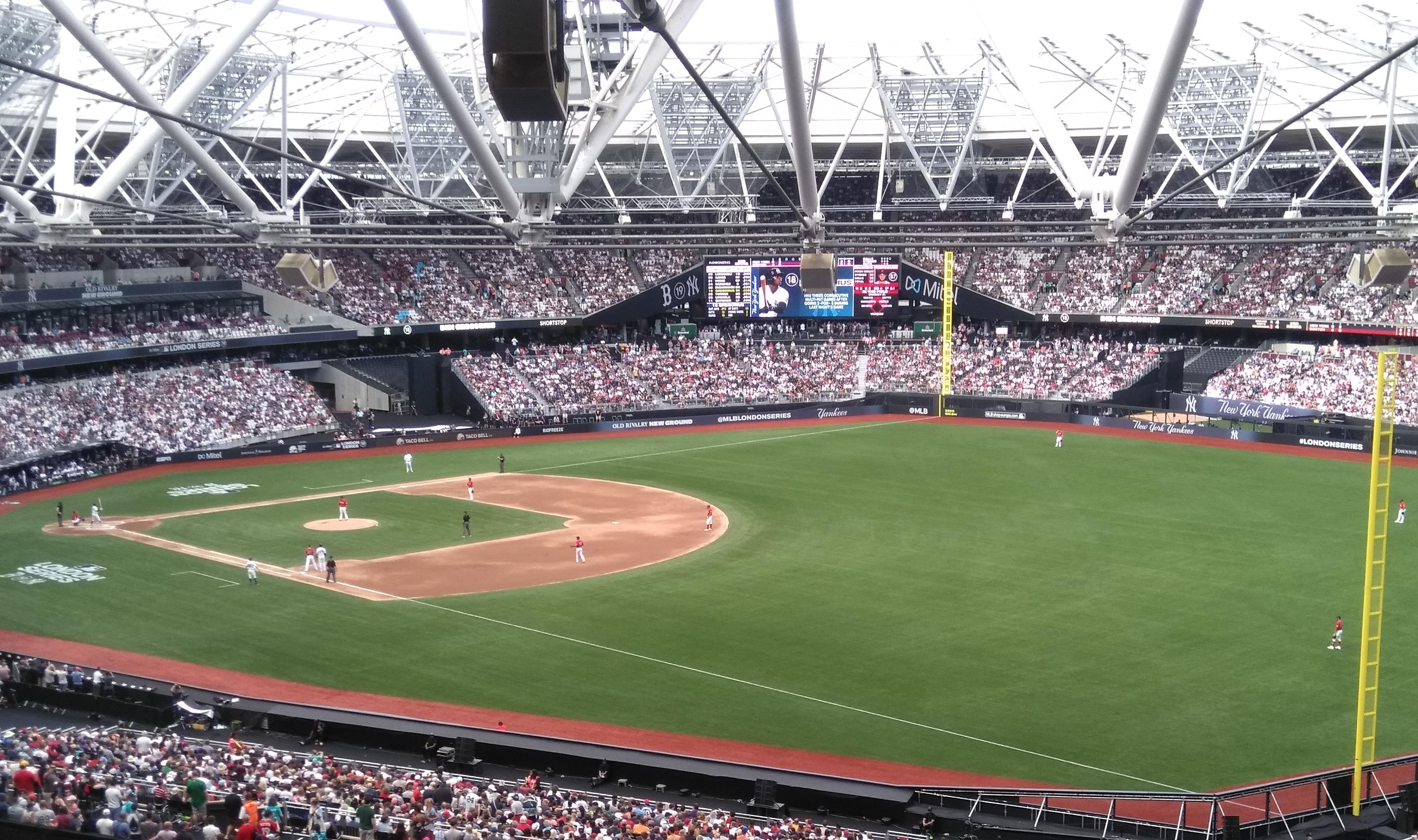 The Boston Red Sox play the New York Yankees during Game 2 of the 2019 MLB London Series at the London Stadium